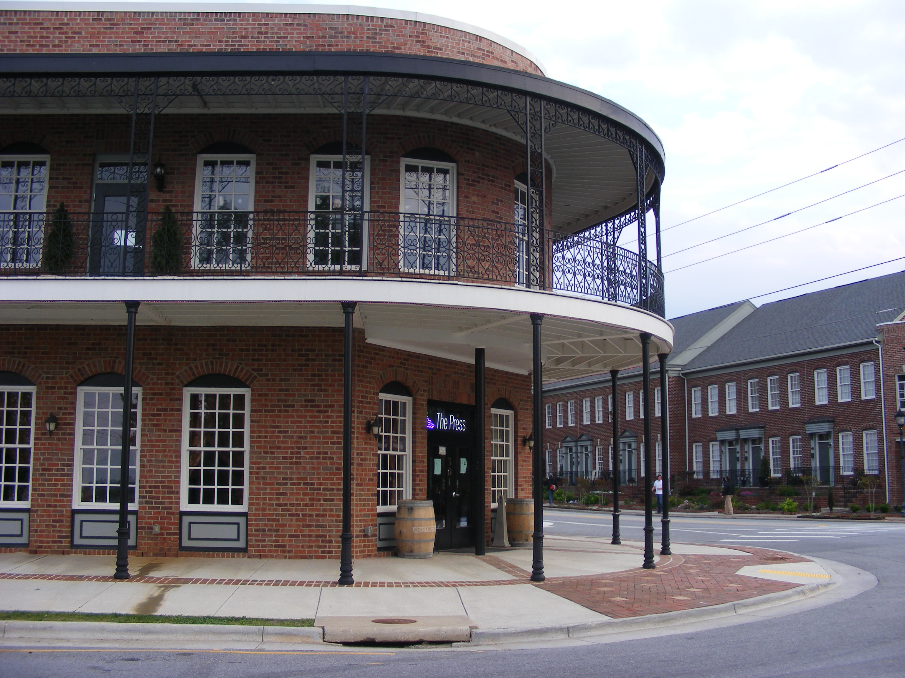 Southside neighborhood in Greensboro, North Carolina, United States.